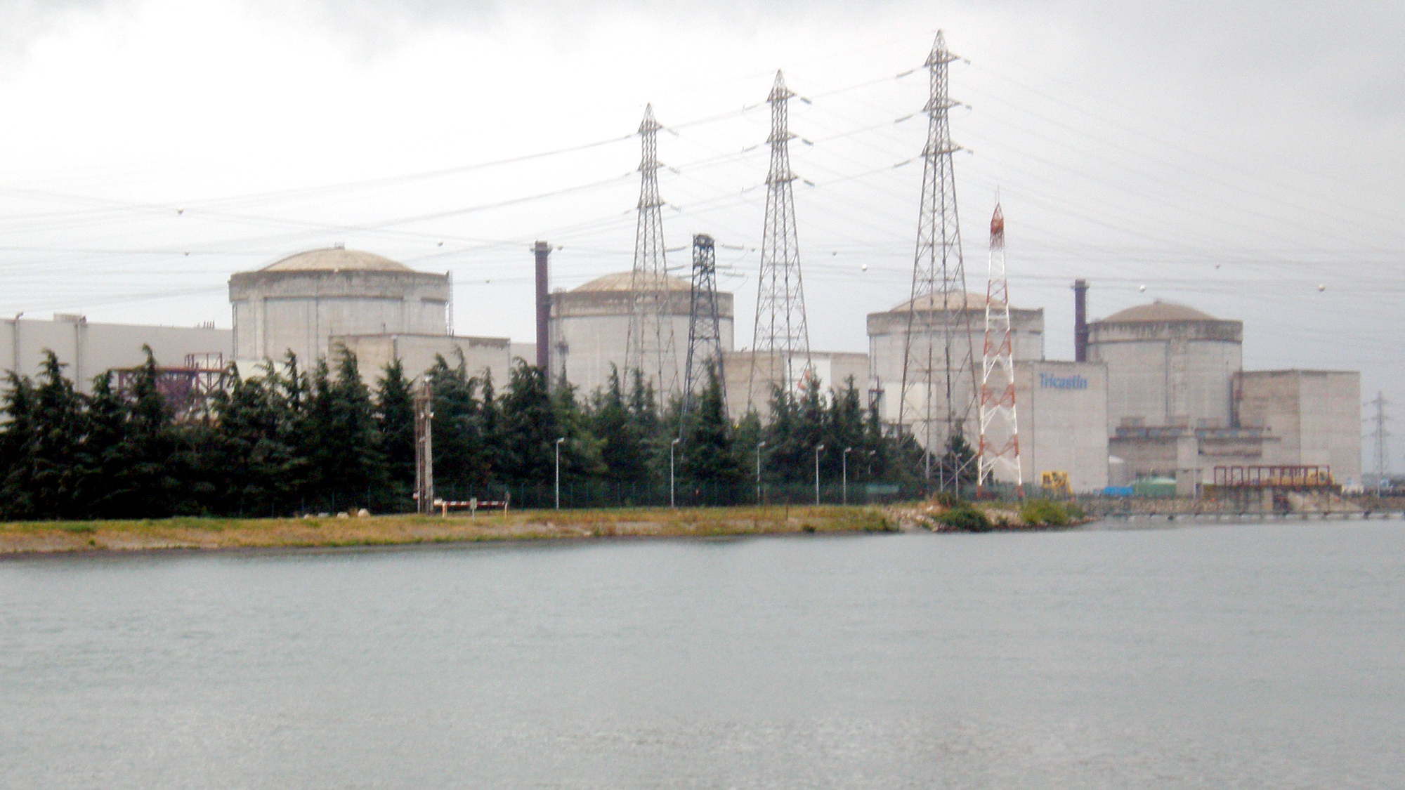 Tricastin nuclear power plant